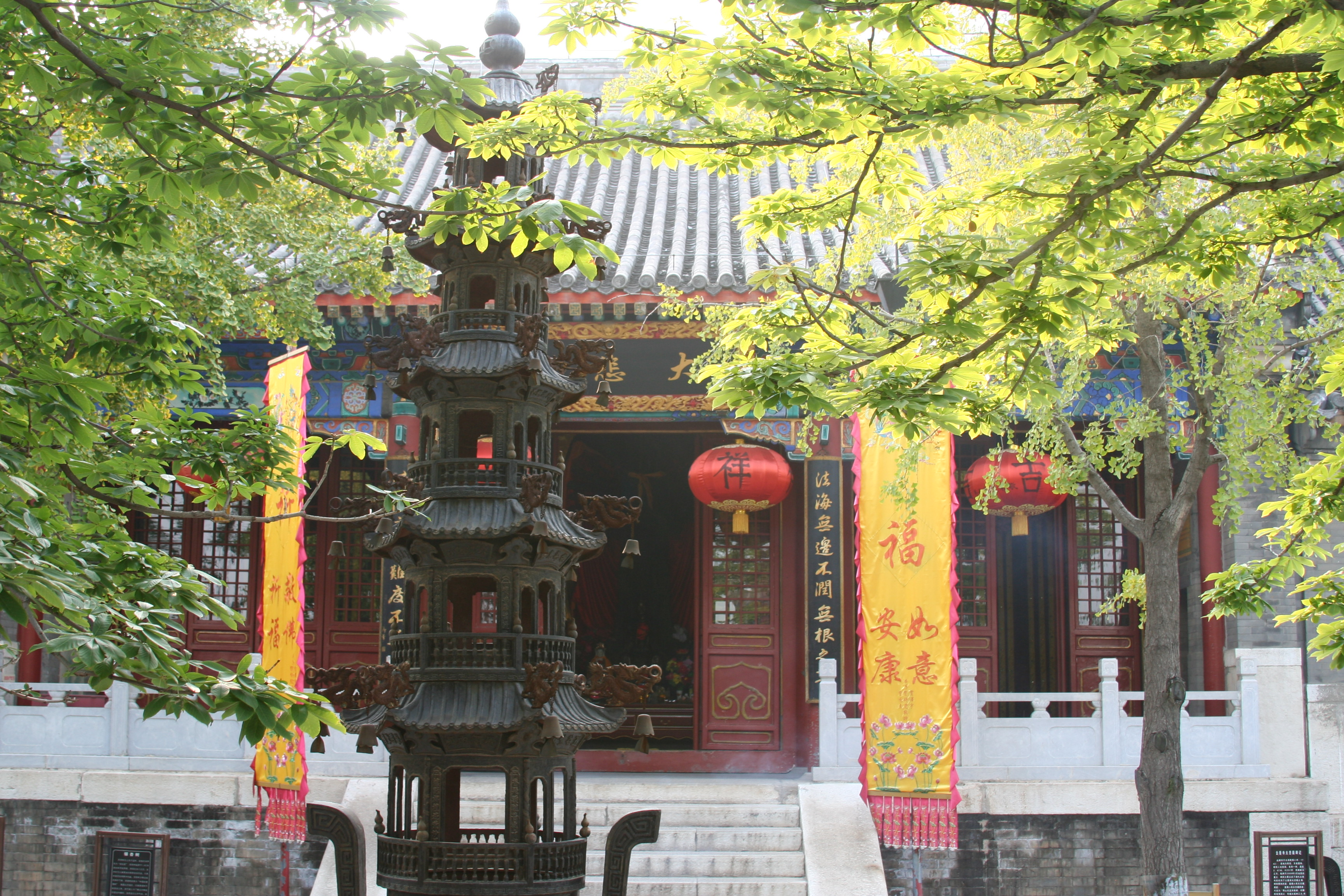 Avalokitesvara Hall, Yunju Temple, Beijing